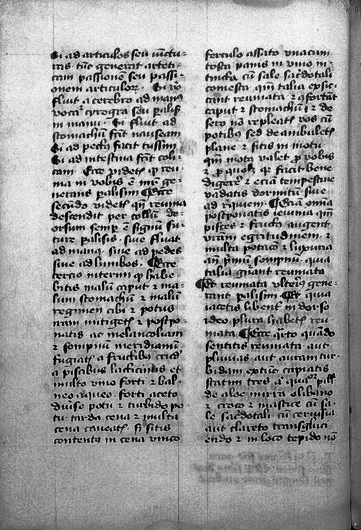 Regimen sanitatis. Arnoldus de Villanova. De conservatione memoriae. Archives & Manuscripts Keywords: Sigismundus Albicus